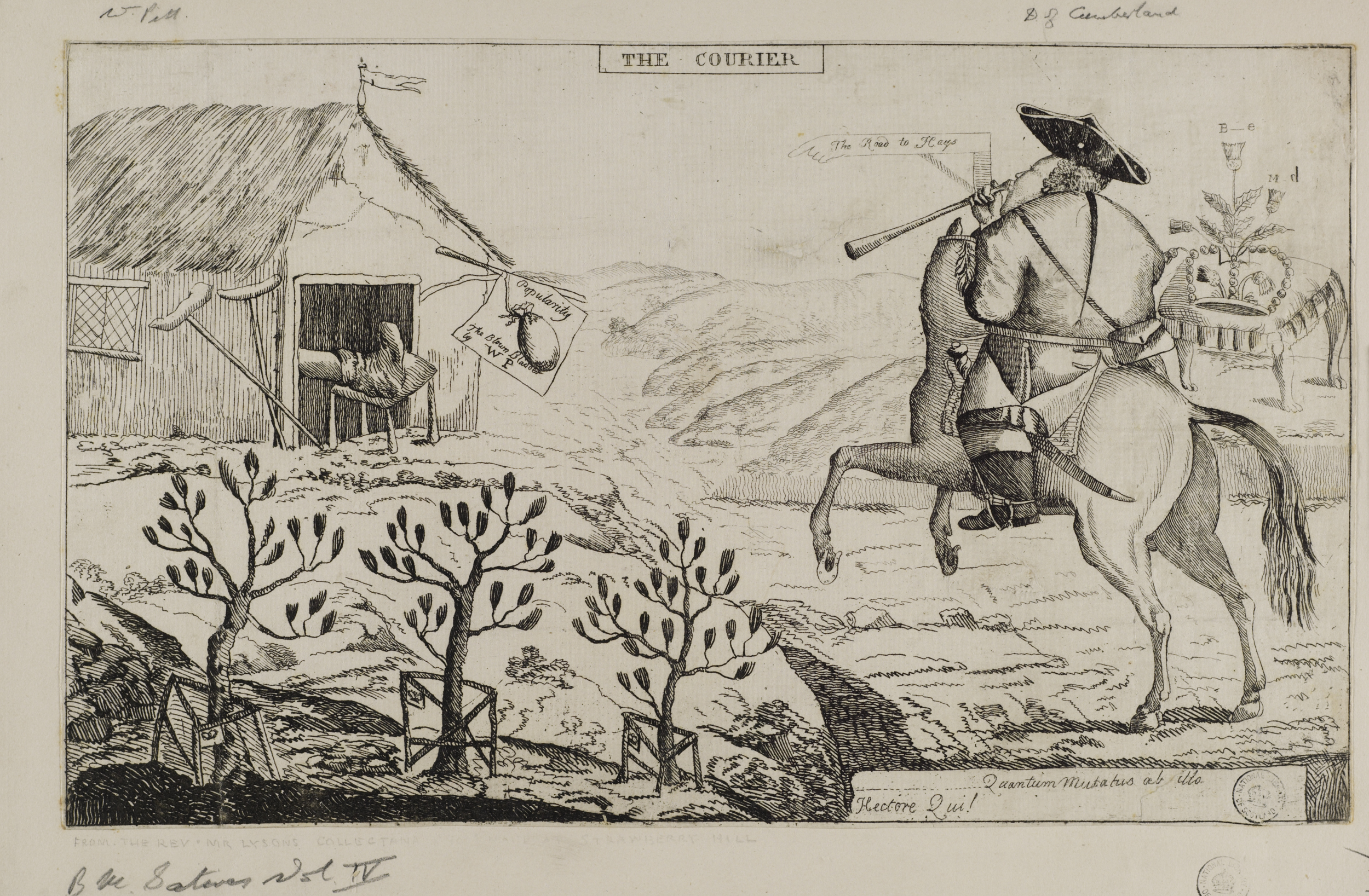 12 1/2x 8 1/8 Satire of fat Duke of Cumberland on his horse riding in the highlands with a House and the sign "Popularity the Blown Bladder by WP" with a foot in a boot sticking out of the door resting on a stool, and two crutches by the side of the house.